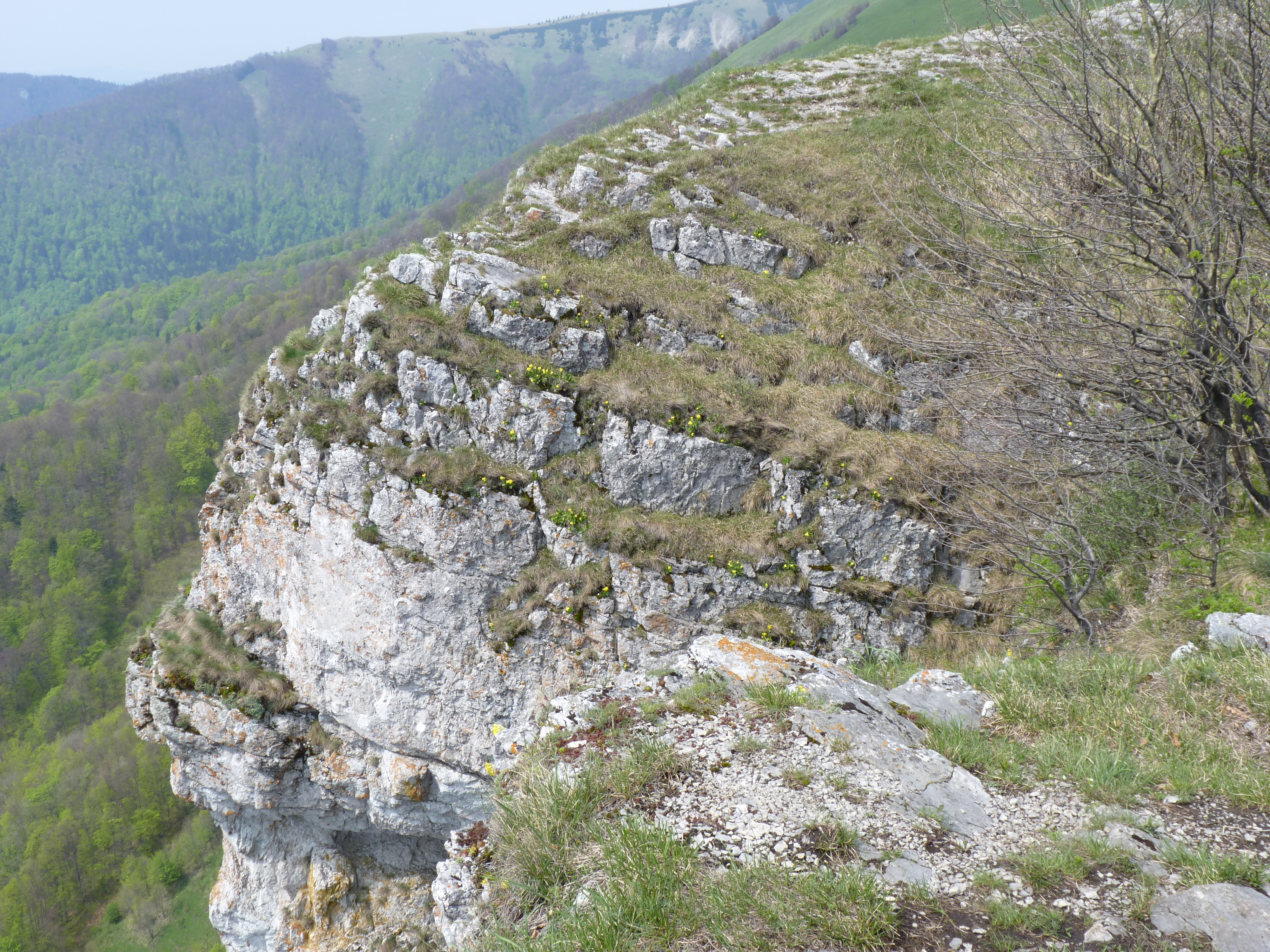 Natural monument Majerova skala. Great Fatra, Slovakia